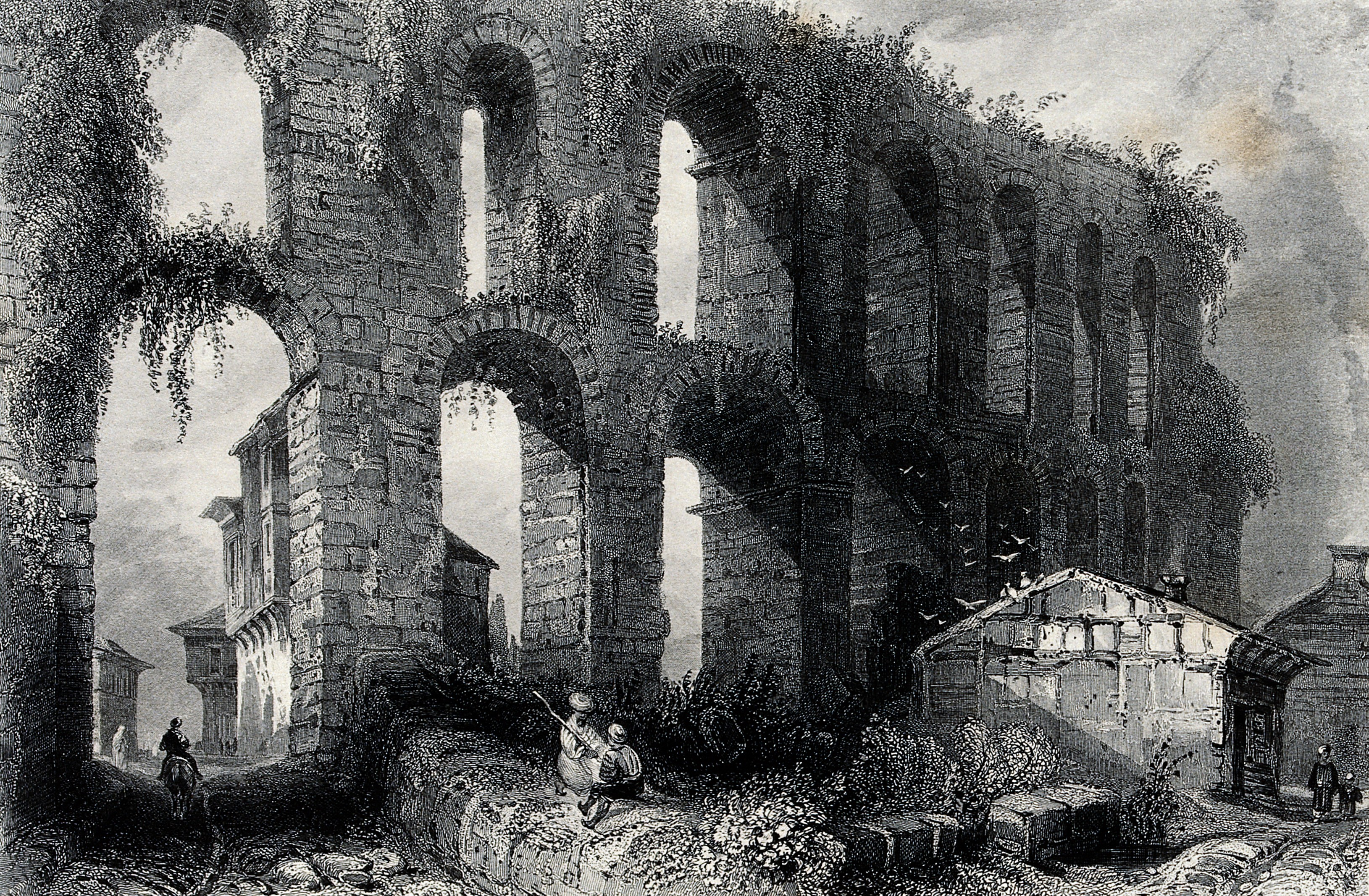 Aqueduct of Valens. Engraving by J.C. Bentley after W.H. Bartlett. Iconographic Collections Keywords: Joseph Clayton Bentley; William Henry Bartlett